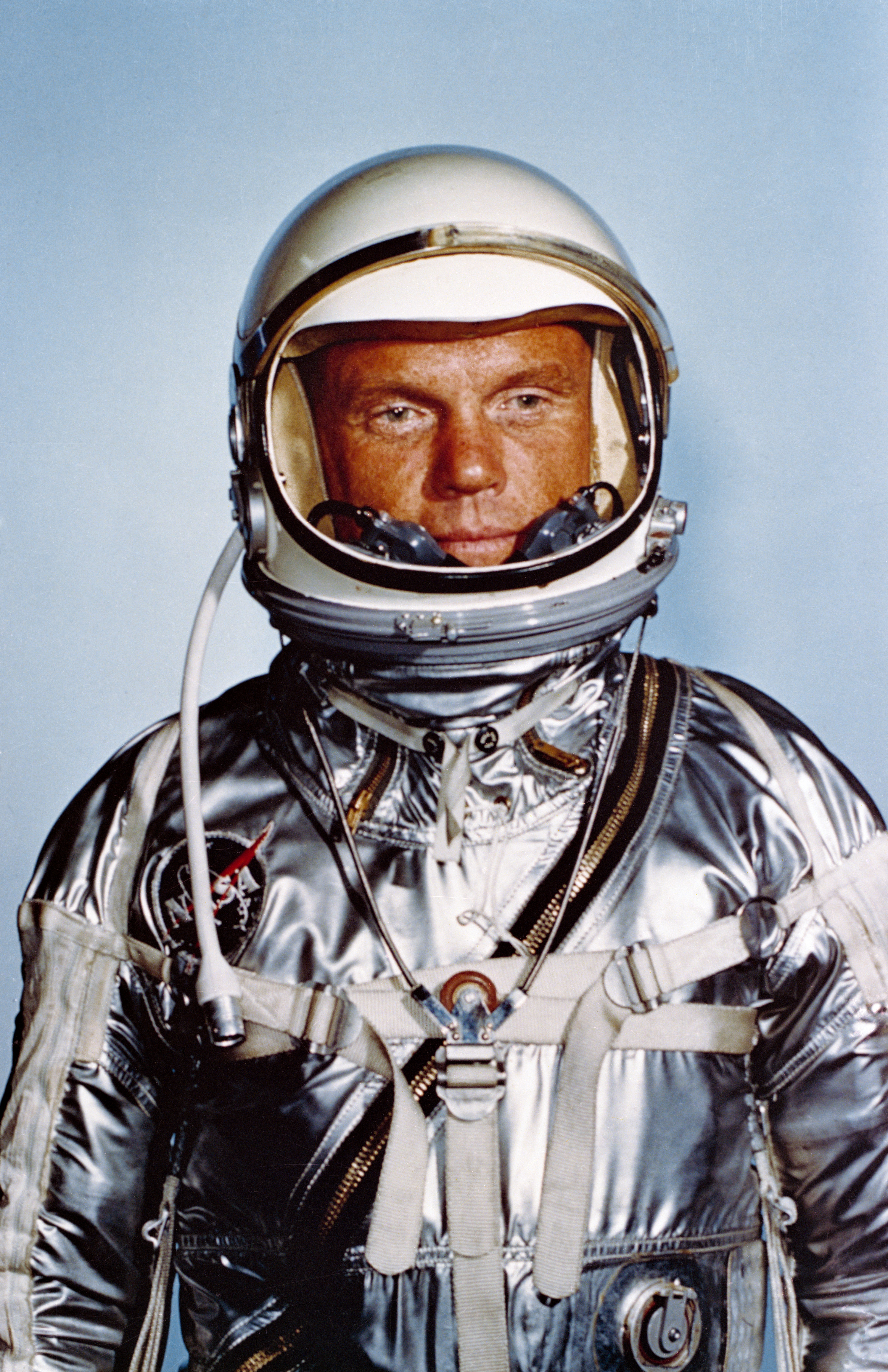 Astronaut John H. Glenn Jr. in his Mercury spacesuit. Image ID: S87-41328